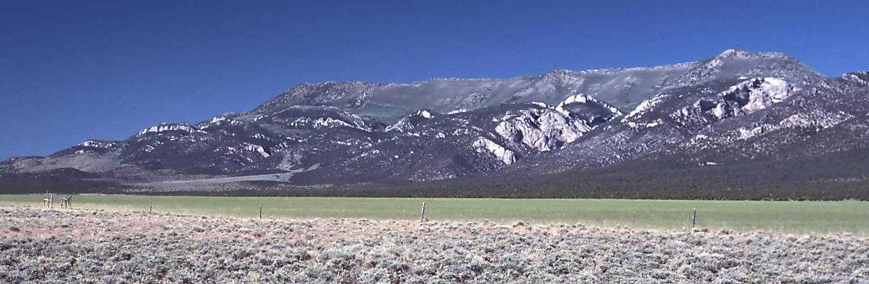 Ward Mountain in the Egan Range of Nevada, looking north from near Lund.